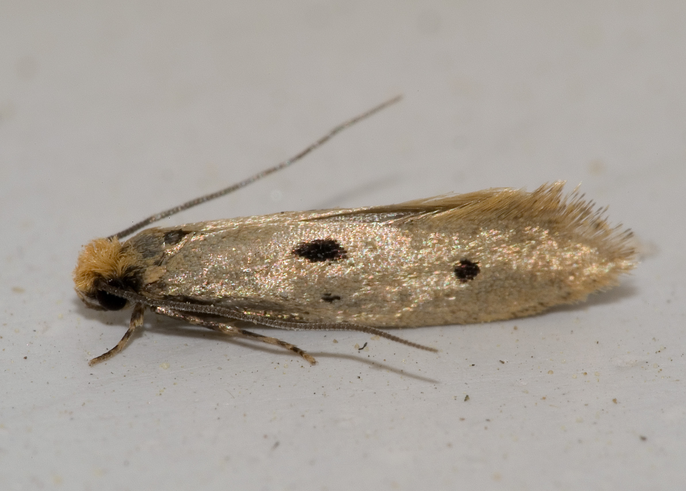 Please report references to kulacgmx.at.